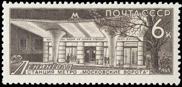 Stamp of the Soviet Union, Moskovskie Vorota (Saint Petersburg Metro station), 1965, CPA #3281.